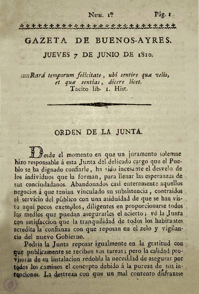 First page of La Gazeta de Buenos Aires #1, the first newspaper of Argentina.